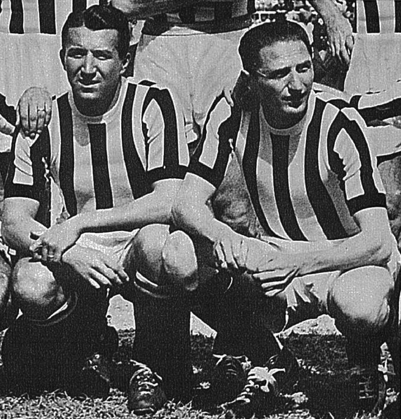 From left to right: Juventus F.C.'s footballers, Czechoslovakian Čestmír Vycpálek and Italian Silvio Piola, in the 1946–47 season.